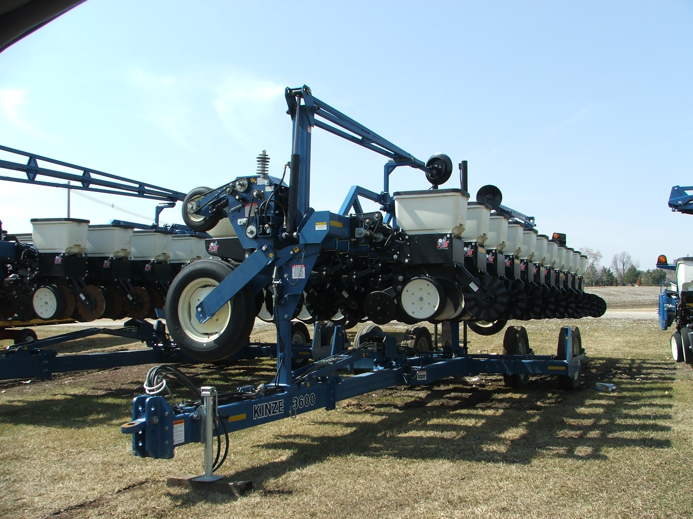 Kinze model 3600 planter closed for transport.